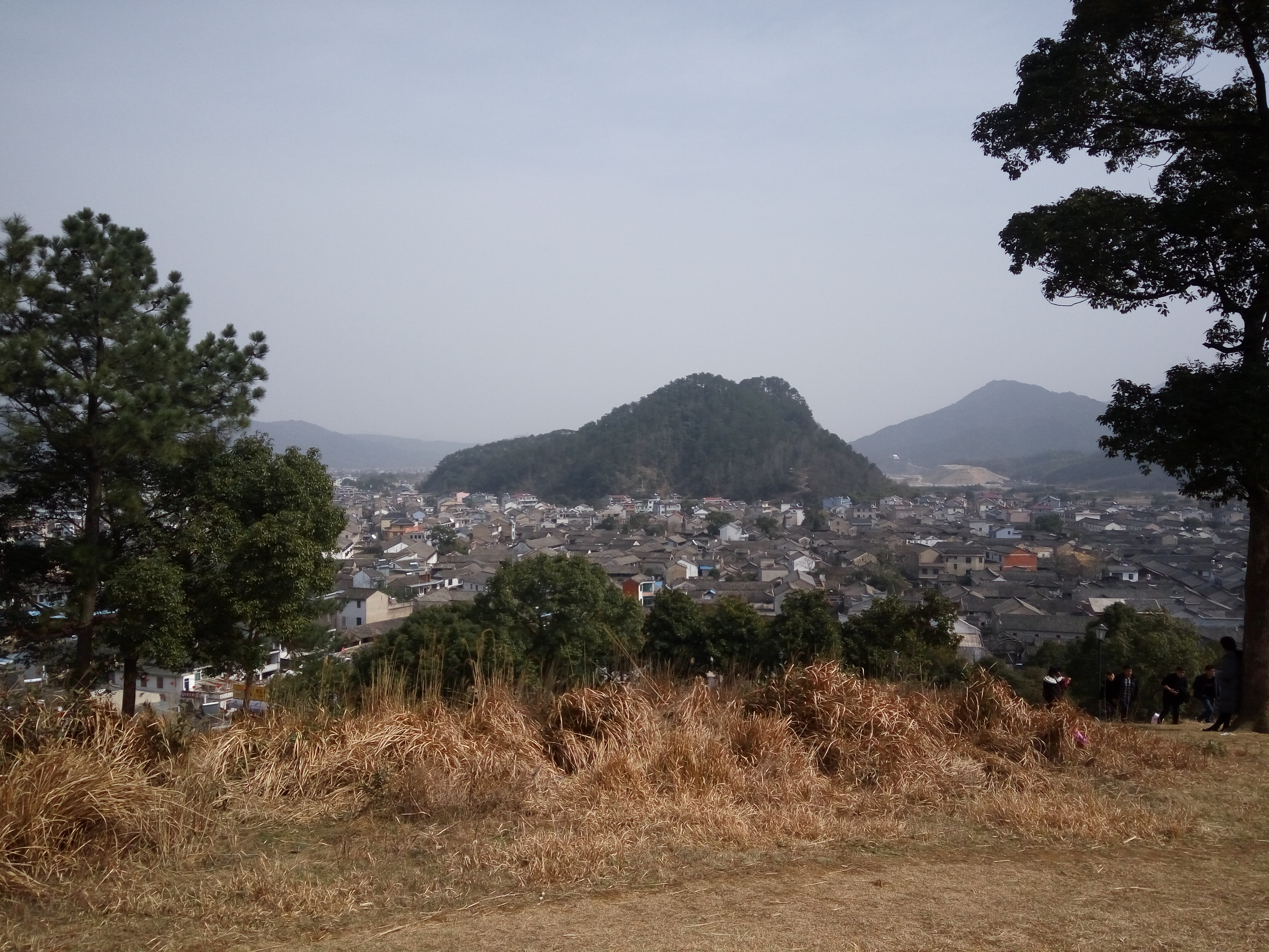 Qiantong is a town in Ninghai County, Zhejiang Province, the People's Republic of China. This is an overlook from the Lushan Mountain （which literally means Deer Mountain).